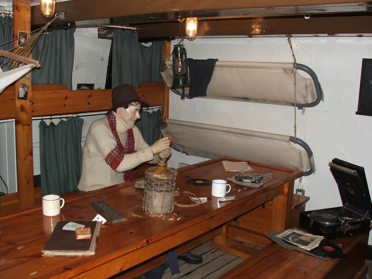 Interior of the RRS Dicovery in Dundee